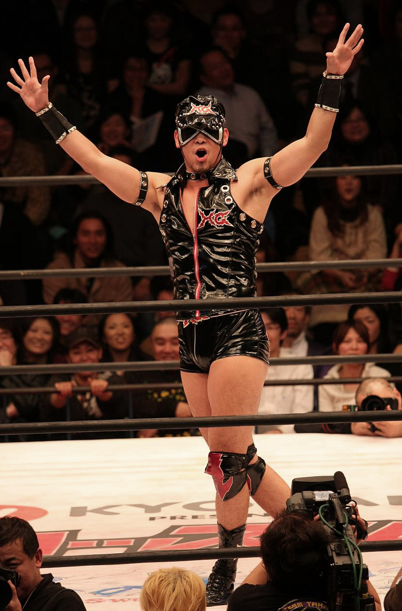 Masaki Sumitani at the Christmas Day Hustle.